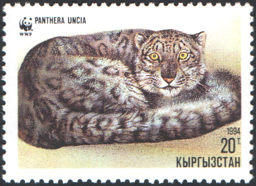 Stamp of Kyrgyzstan